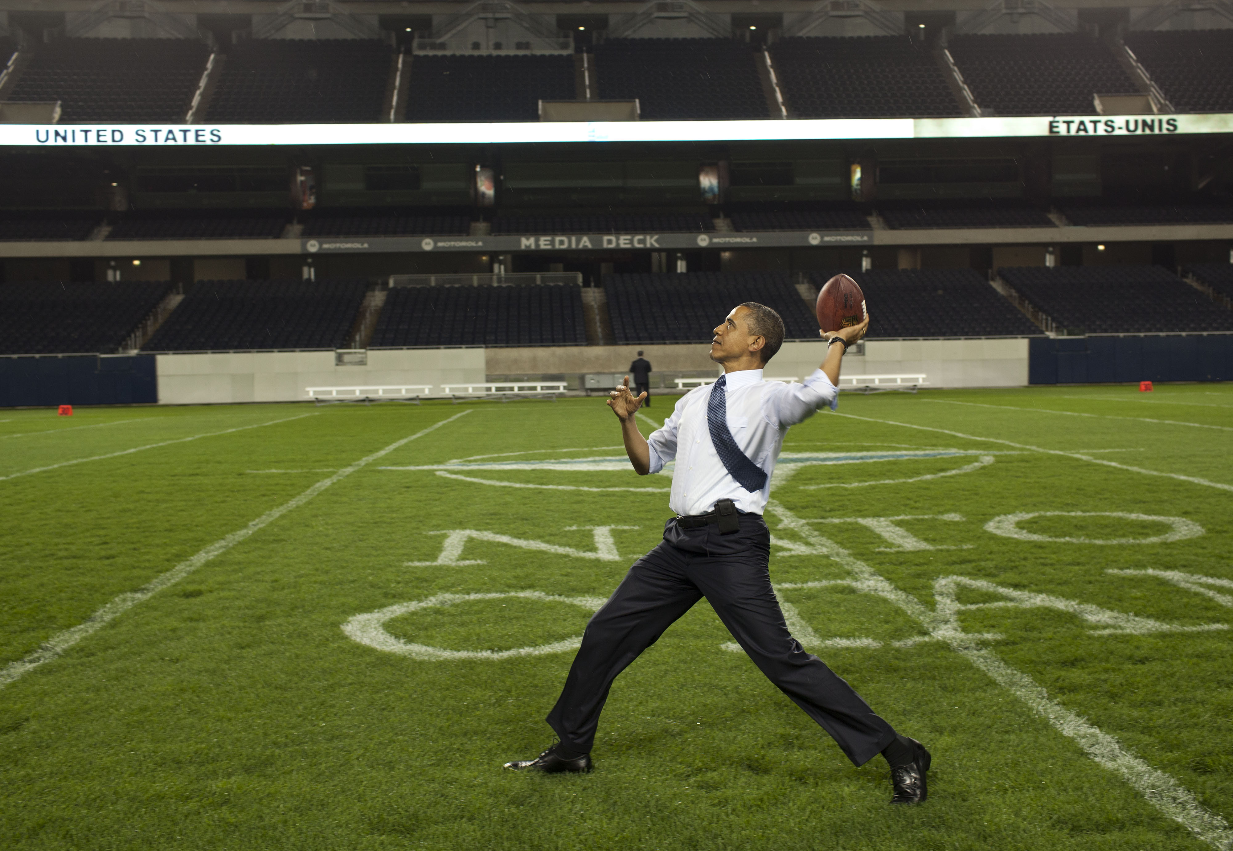 United States President Barack Obama throws a football at Soldier Field following a NATO working dinner in Chicago on 20 May 2012.